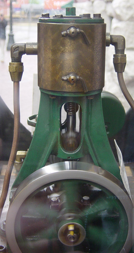 This small steam engine powers a steam clock Image taken and uploaded by User:Leonard G.